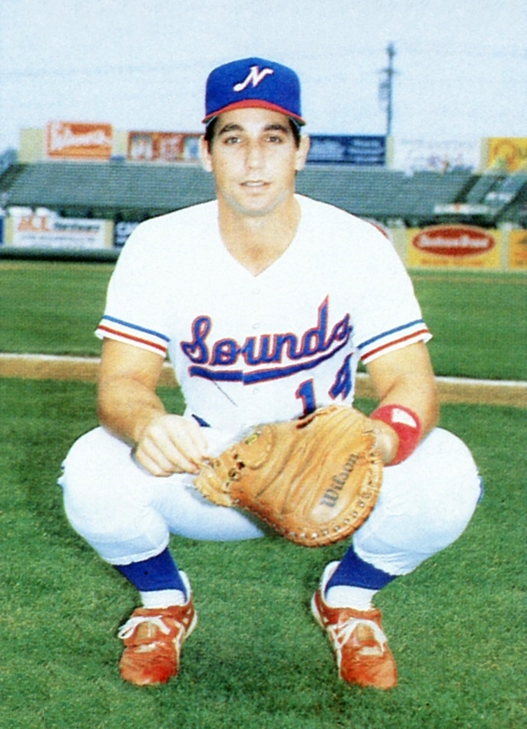 Catcher Tony DeFrancesco of the 1988 Nashville Sounds Minor League Baseball team of the American Association